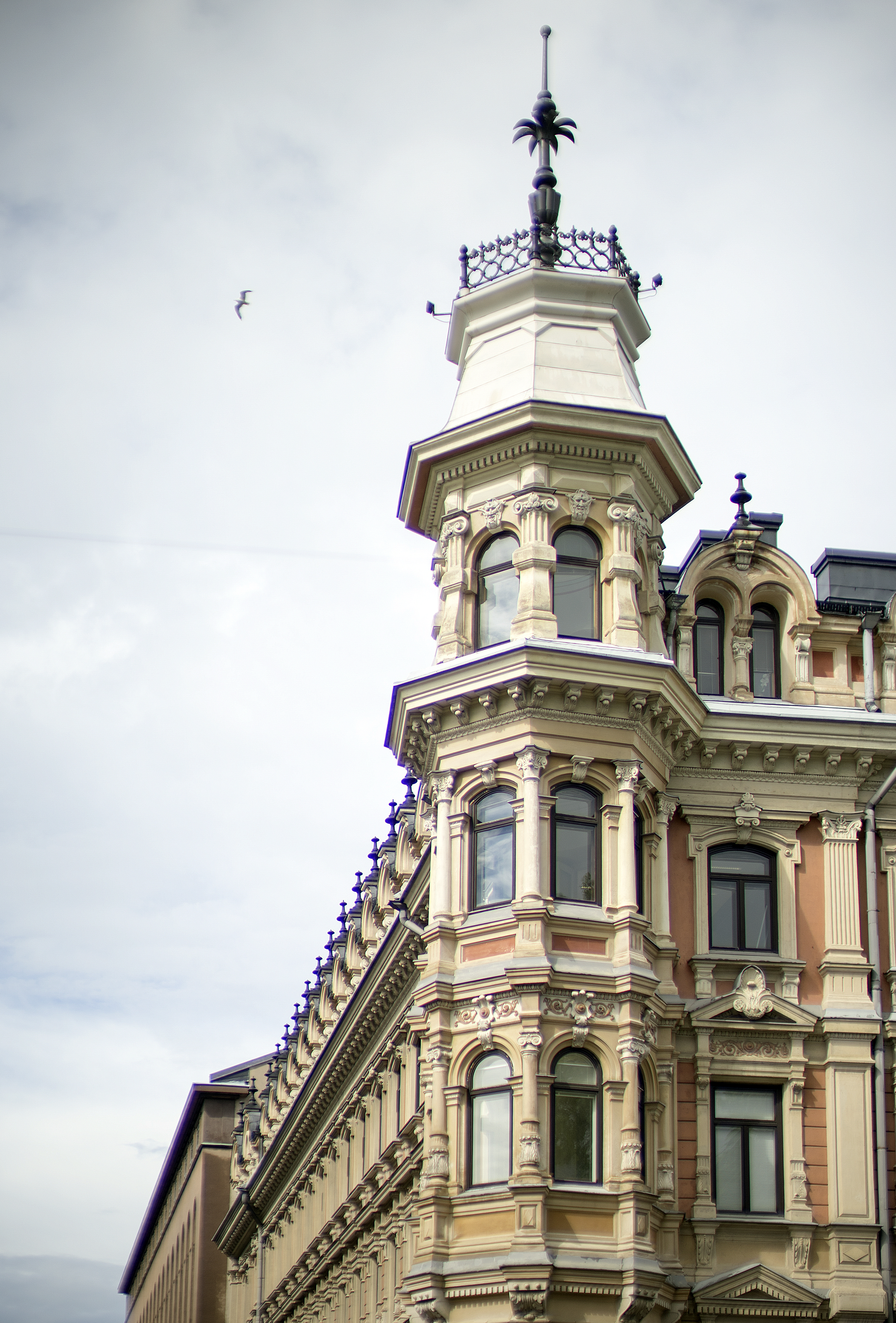 Helsinki to Tallinn Keep